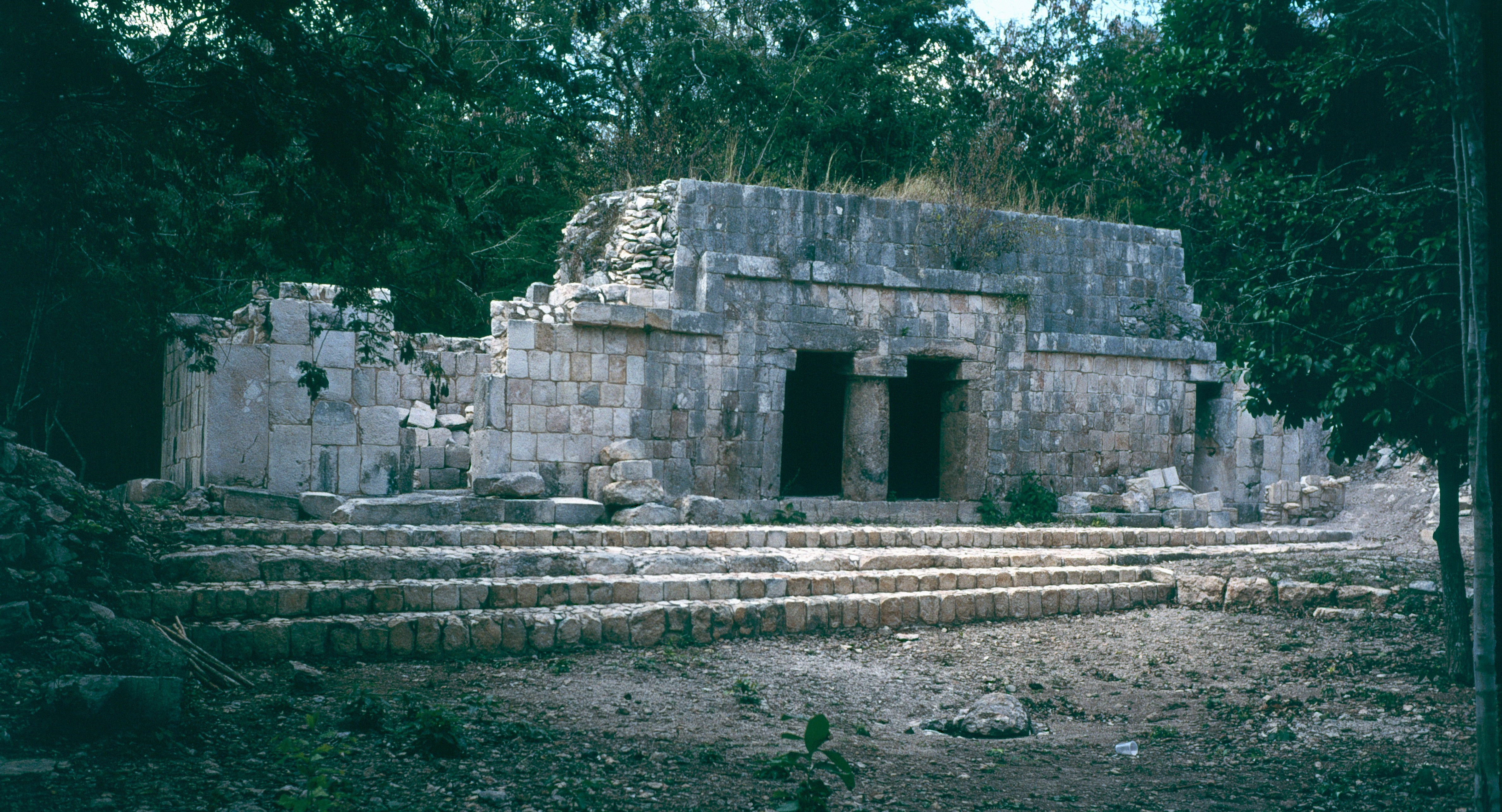 Kabah, Yucatan, Mexico: building 1A5